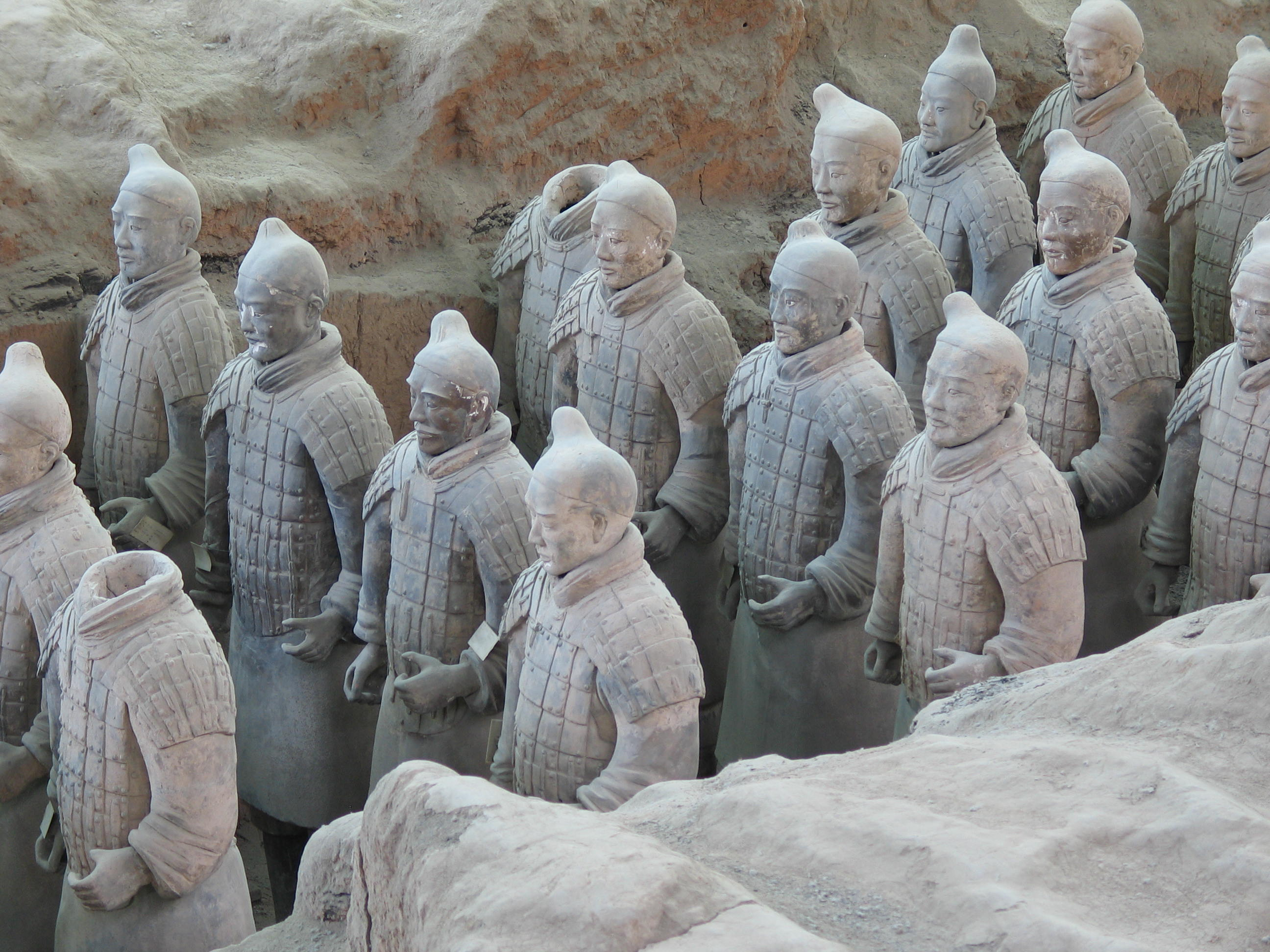 Terracotta army, discovered in the tomb of emperor Qin, at Xi'an.